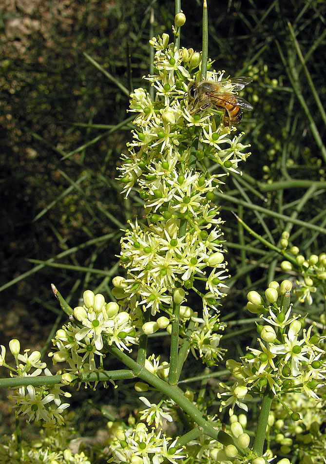 Native to the southern U.S. and to Mexico, where it is known as Corona de Cristo. Photo from Boyce Thompson Arboretum, Arizona. In context at